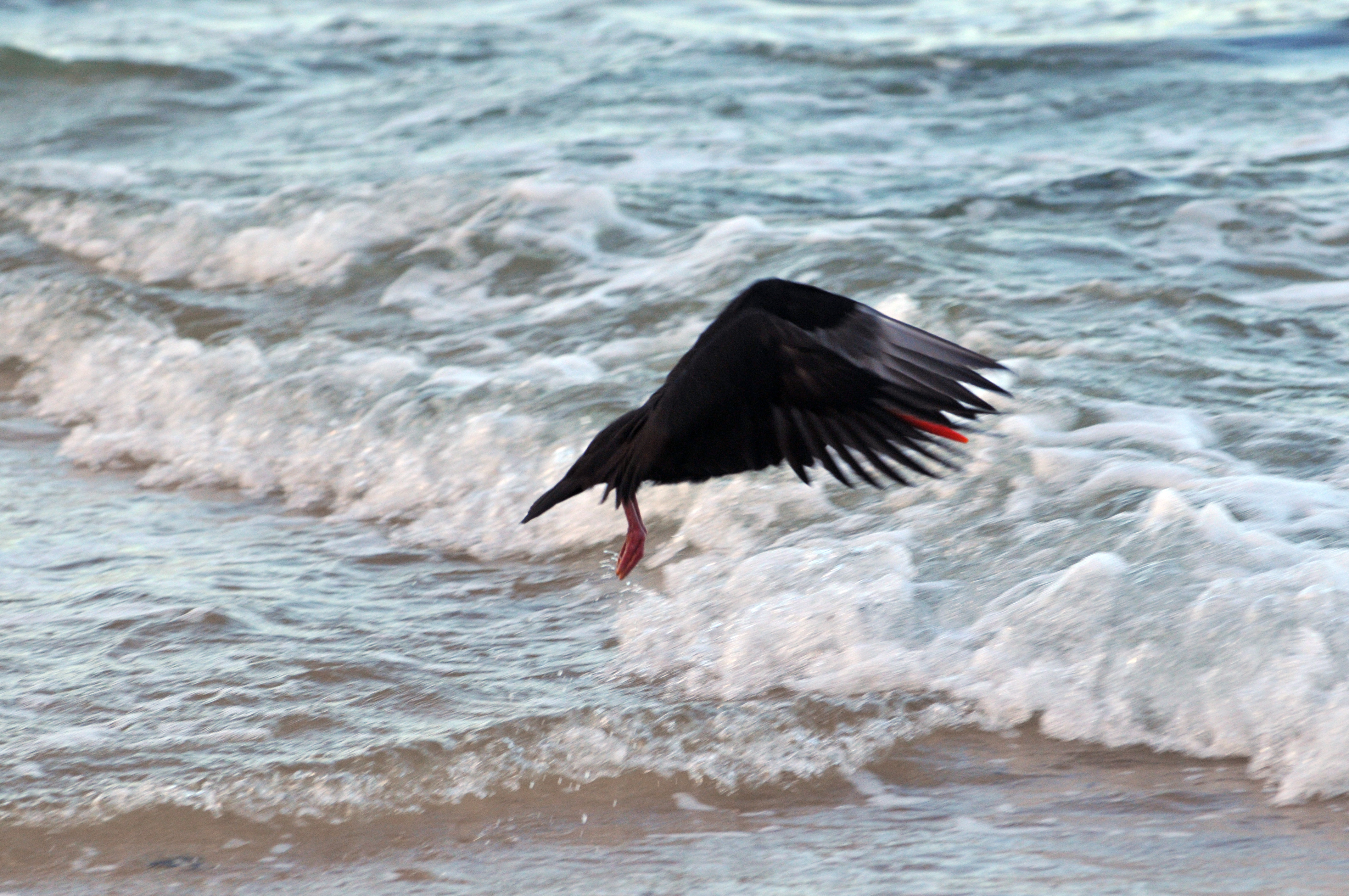 A Sooty Oystercatcher mid-flight, taken at Bastion Point, Victoria. One in a series of three.